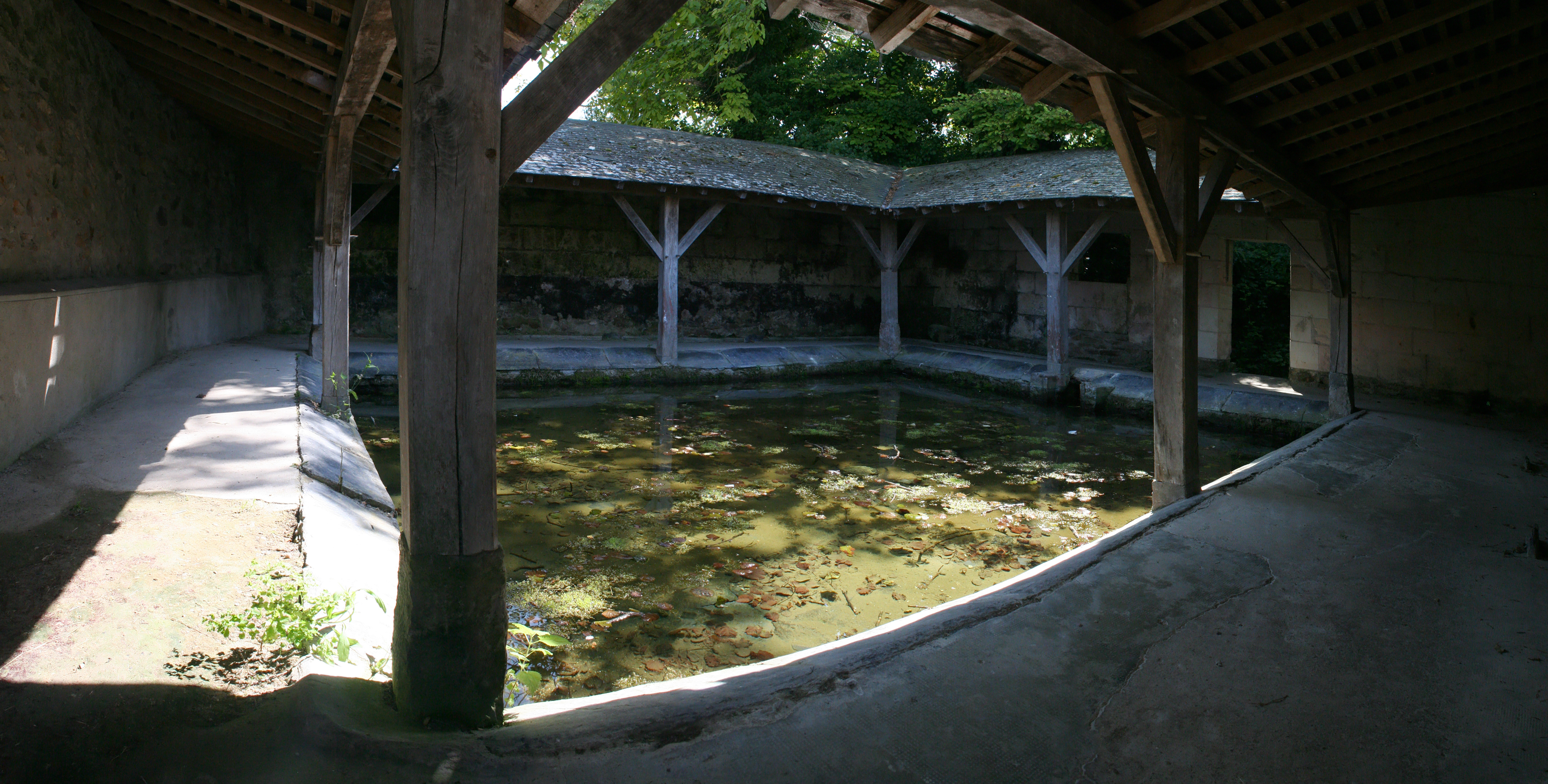 The old wash house in Chemellier. Maine et Loire, France.